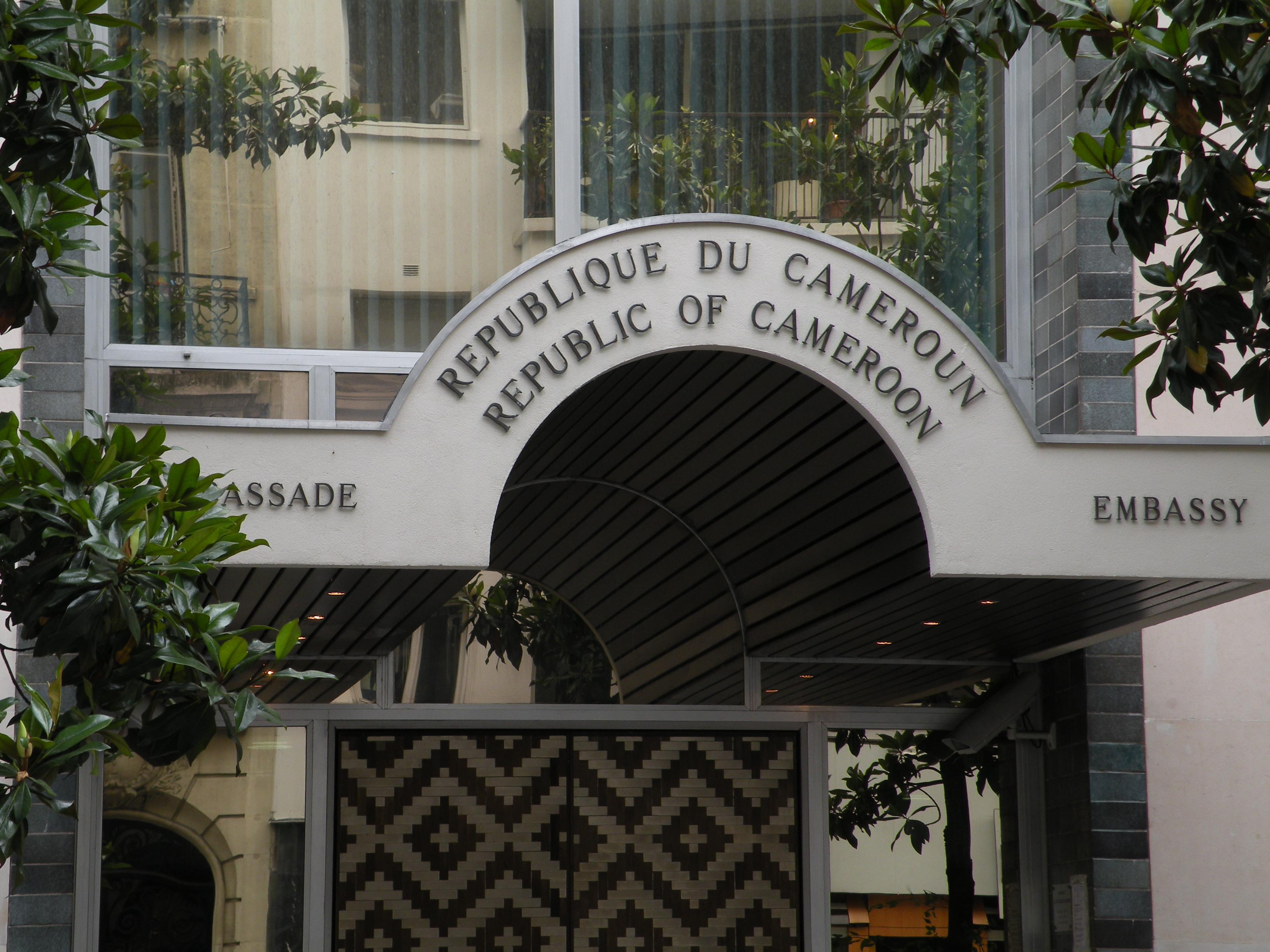 Cameroonian embassy in France, Paris.